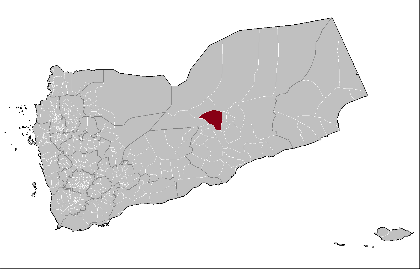 District locator of Al Qatn District in Hadhramaut Governorate, Yemen.